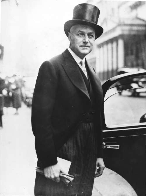 Björn Prytz, the Swedish Minister Plenipotentiary to the Court of St James